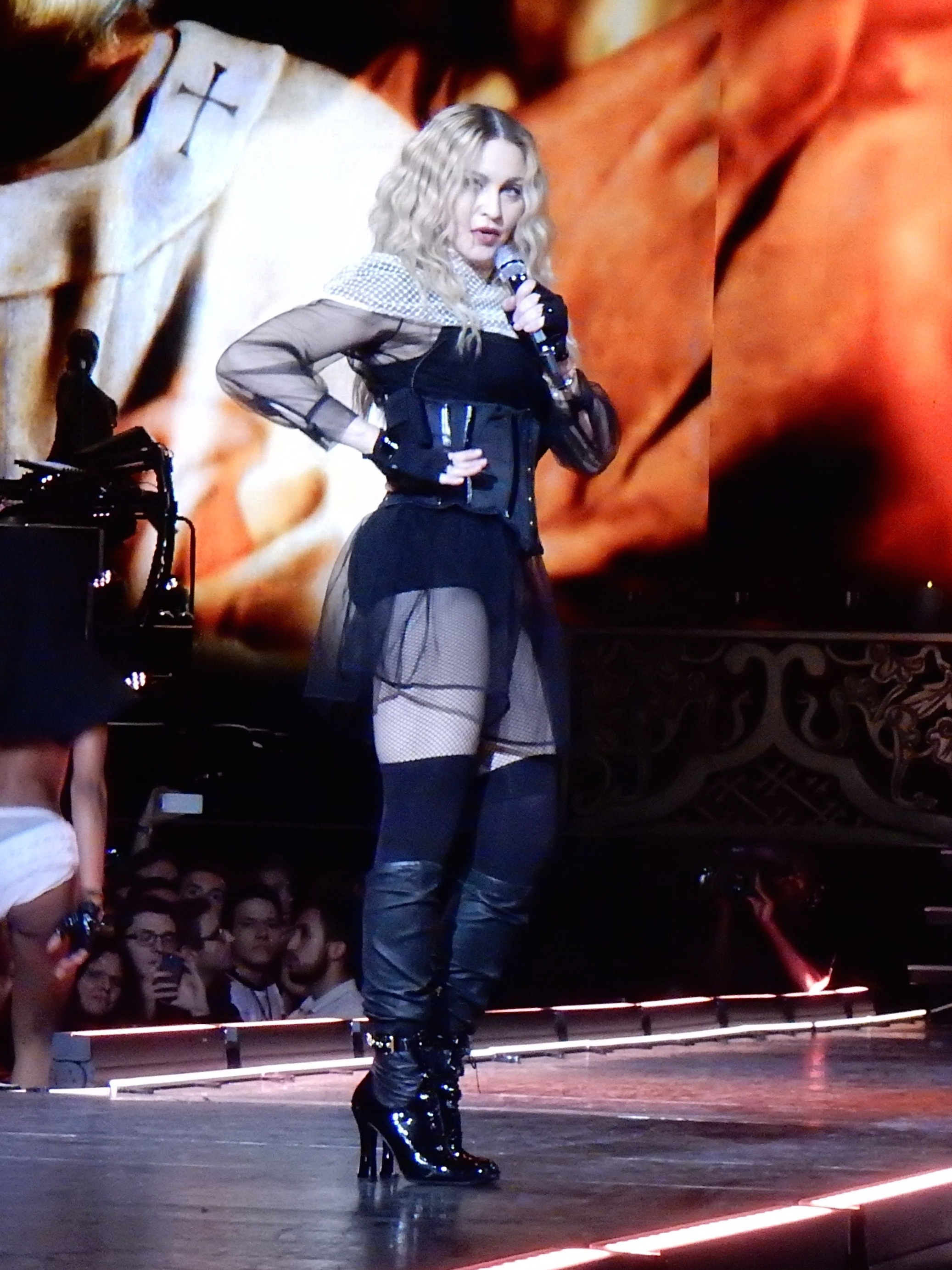 Madonna - Rebel Heart Tour Cologne 2